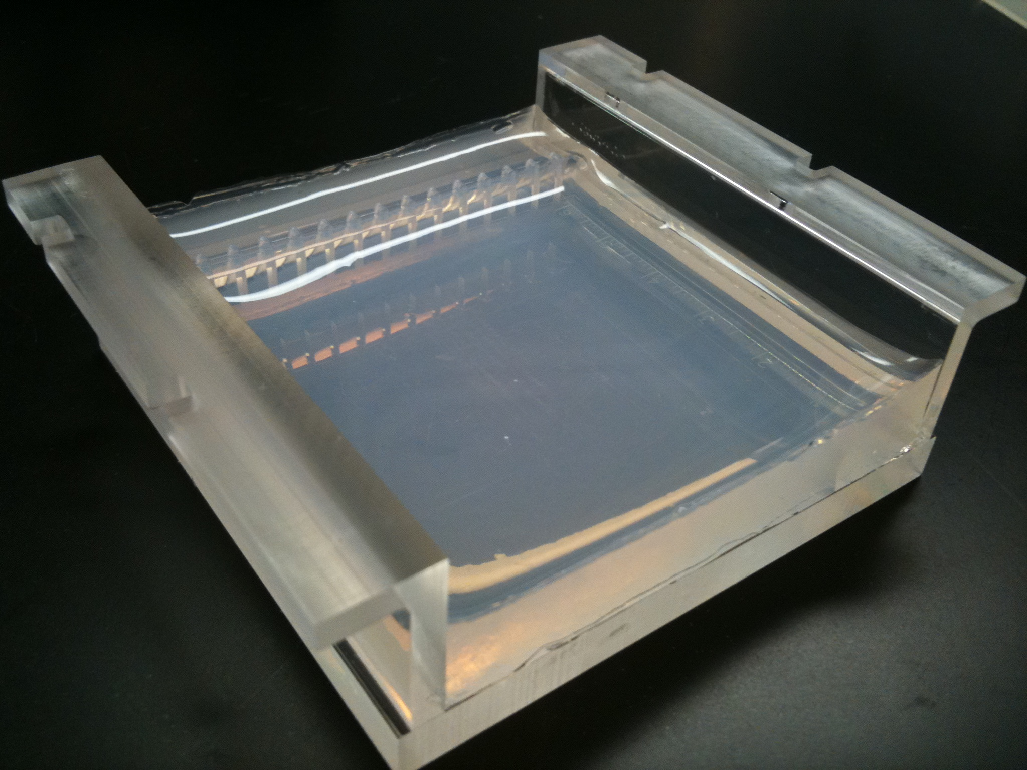 Photograph of a 2% agarose gel in borate buffer. This will be used in electrophoresis to separate bands of DNA based upon size and conformation.